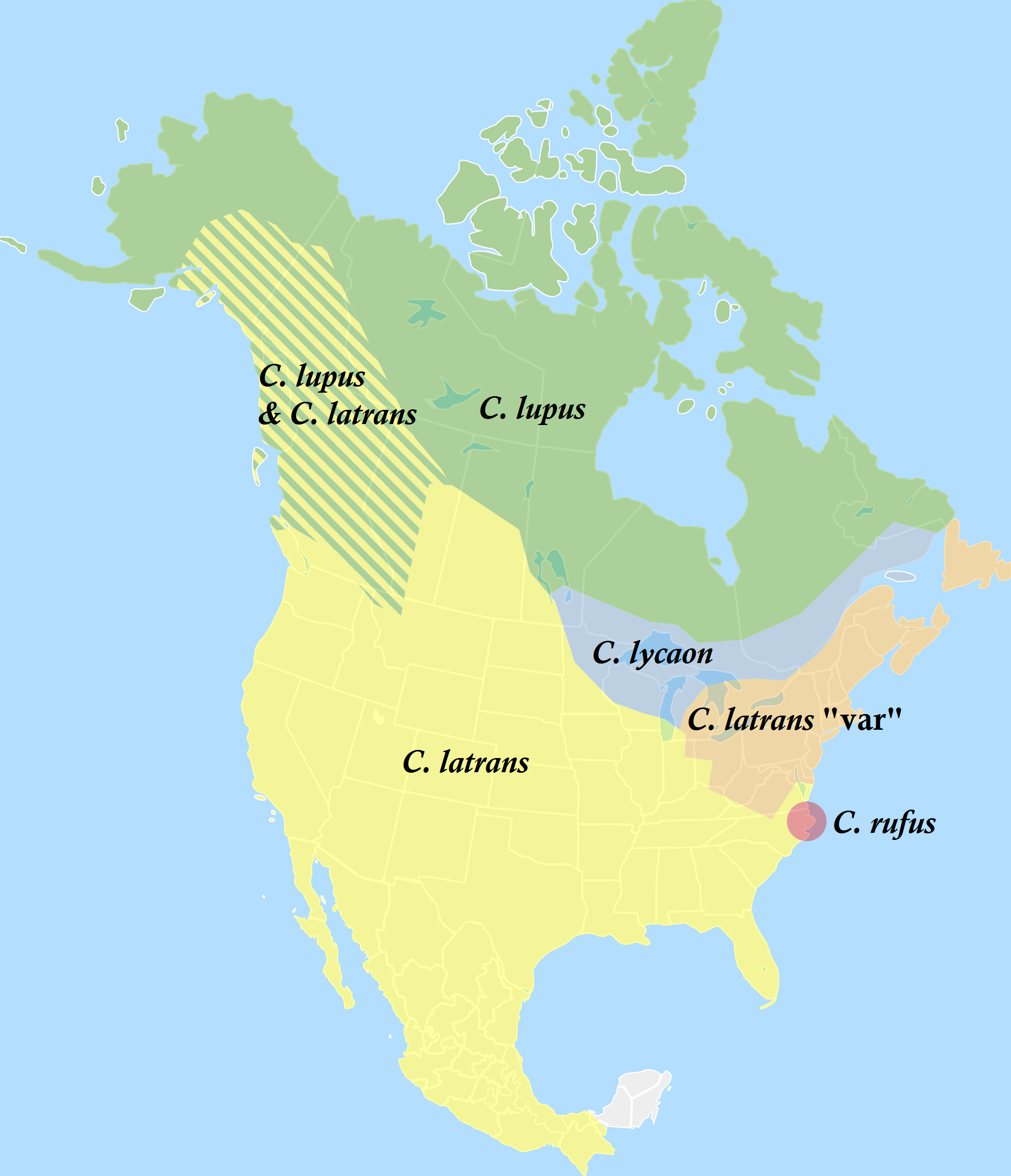 Modern range of North American Canis.